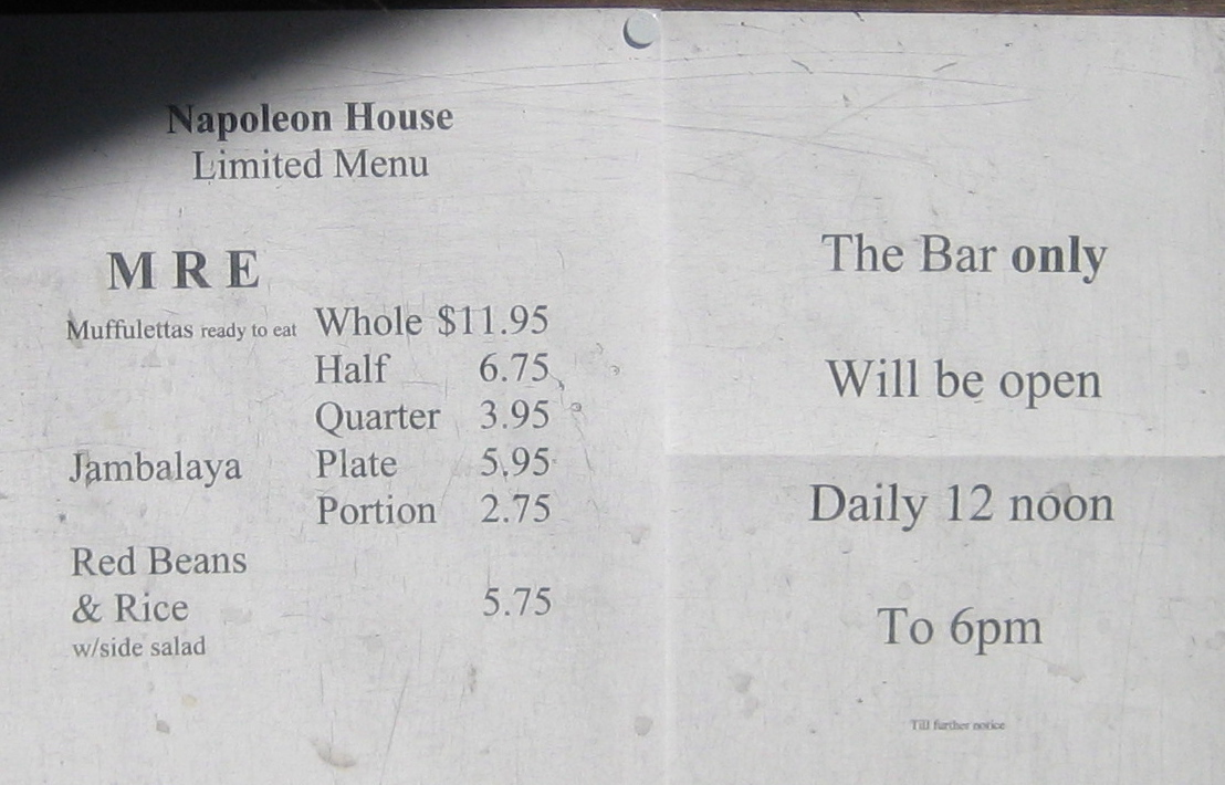 New Orleans after Hurricane Katrina: Napoleon House Restaurant & Bar in the French Quarter offers a limited menu, with humorous description of local style sandwich, the muffelatta, as MRE.